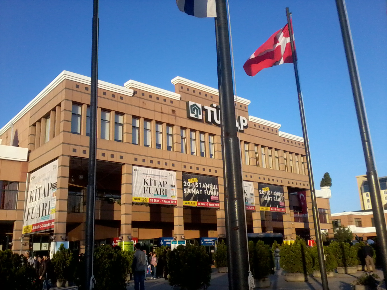 2010 Istanbul Book Fair.